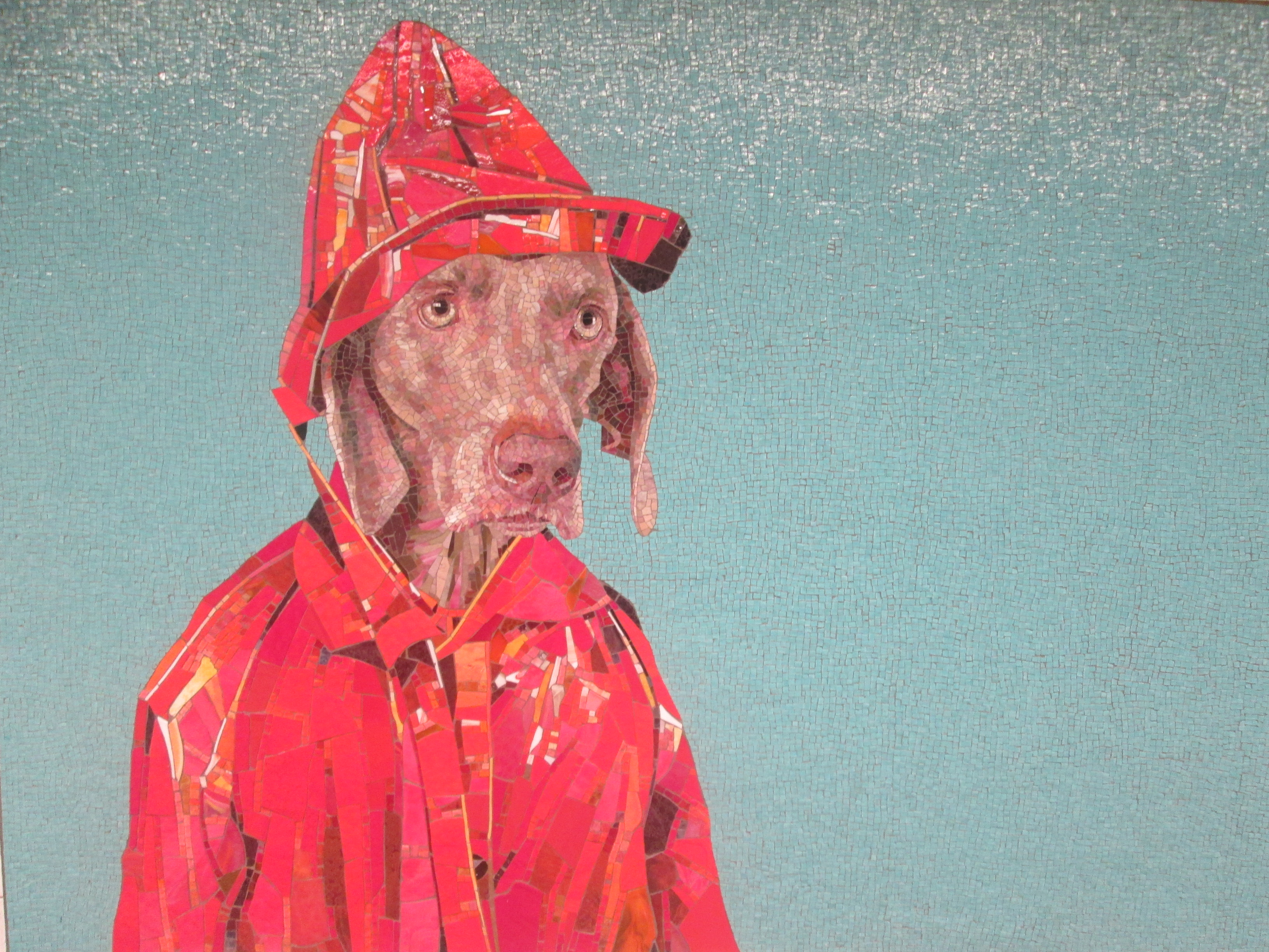 The 23rd Street/Sixth Avenue station in New York City after Enhanced Station Initiative renovations, seen in December 2018